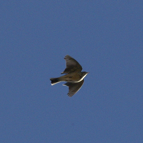 Meadow Pipit (Anthus pratensis), John Muir Country Park Songflighting over the dunes; a sure sign of spring.